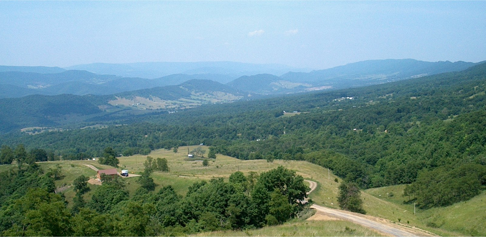 Germany Valley in Pendleton County, West Virginia. Picture taken on US 33 on North Fork Mountain in July 2006. Picture taken and uploaded by Wyatt Greene.